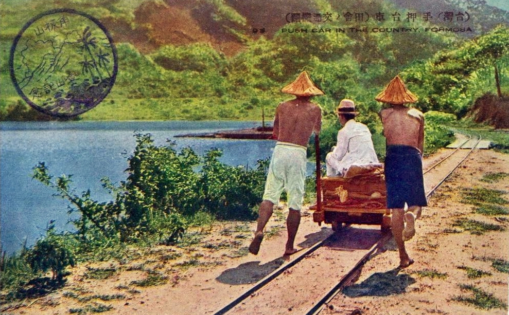 Taiwanese pushcar railways